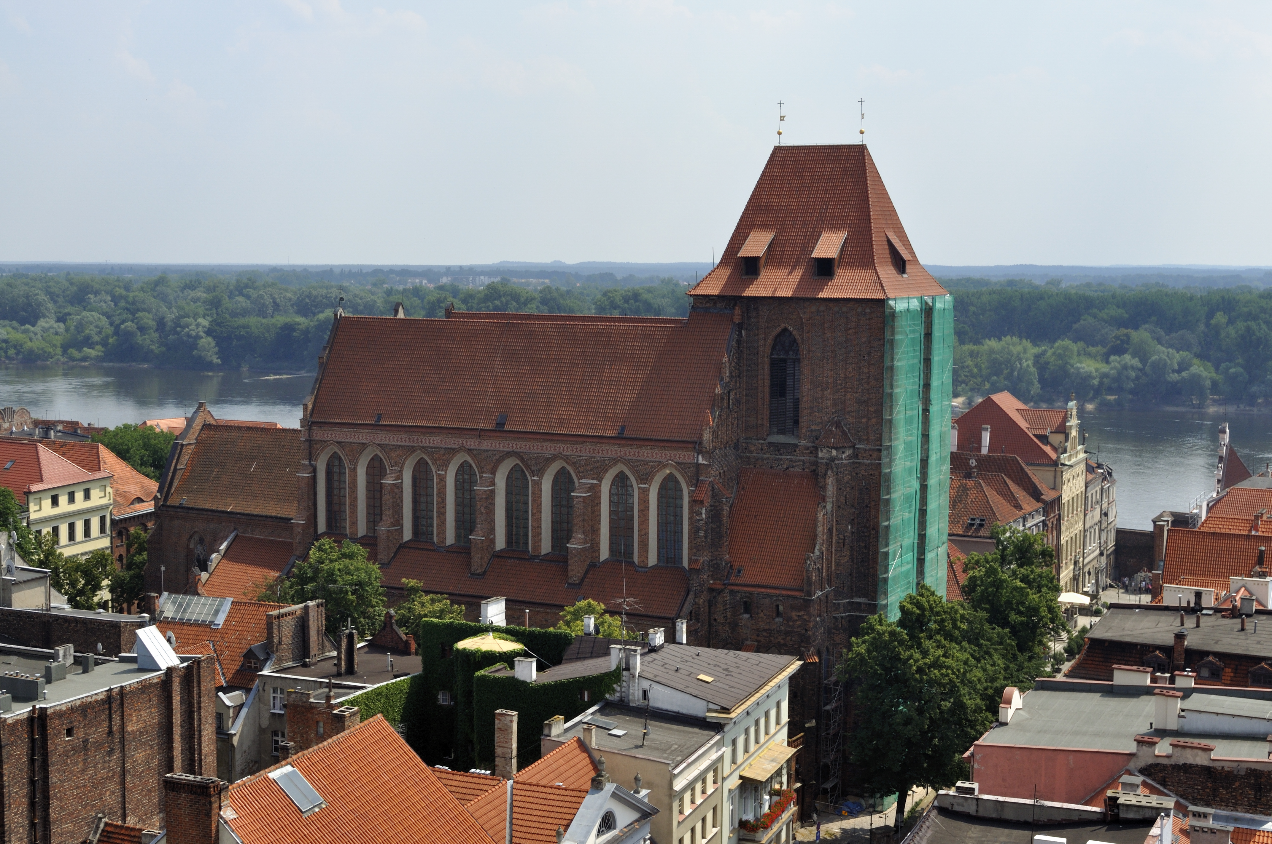 Picture taken in Toruń after Wikimania 2010 conference.